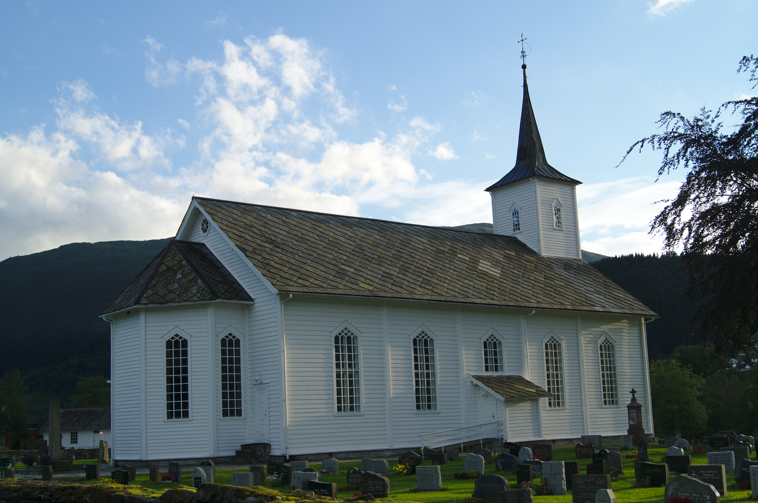 The church in Dale i Sunnfjord